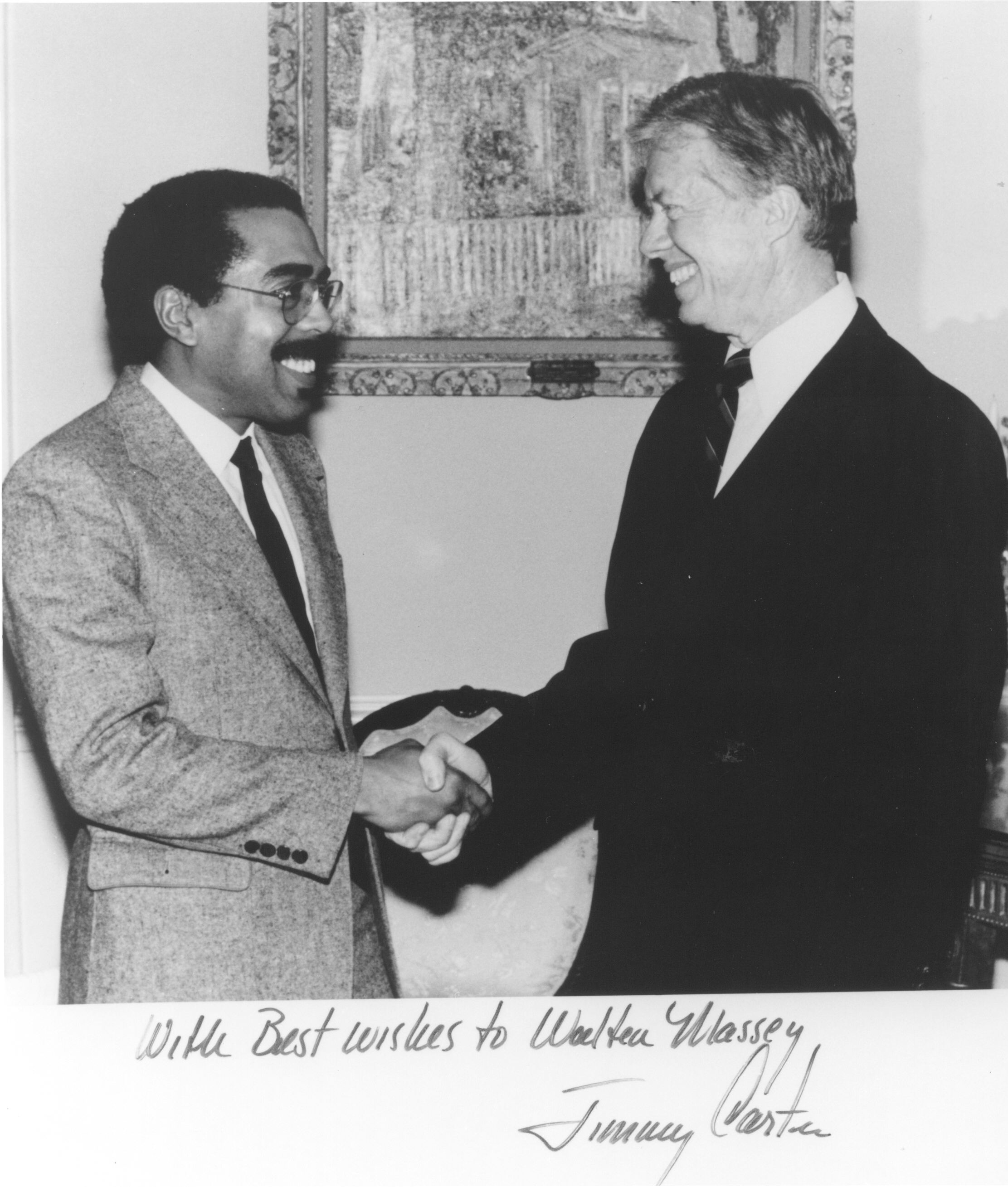 Walter E. Massey, Argonne National Laboratory director from 1979 to 1984, meets with President Jimmy Carter at the White House on February 28, 1980. More Argonne history » Image courtesy Argonne National Laboratory.